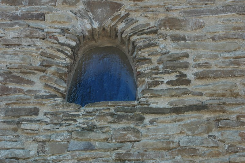 Kopčany, St. Margaret church, 9 st, the only remaining Great Moravian Building